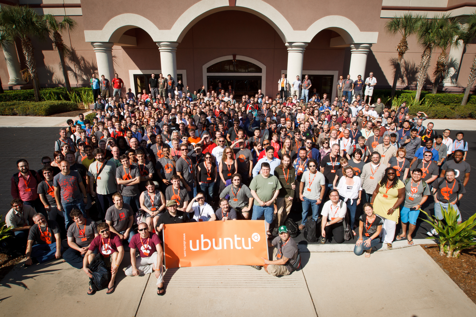 Picture from Ubuntu Developer Summit Natty on Orlando, Florida